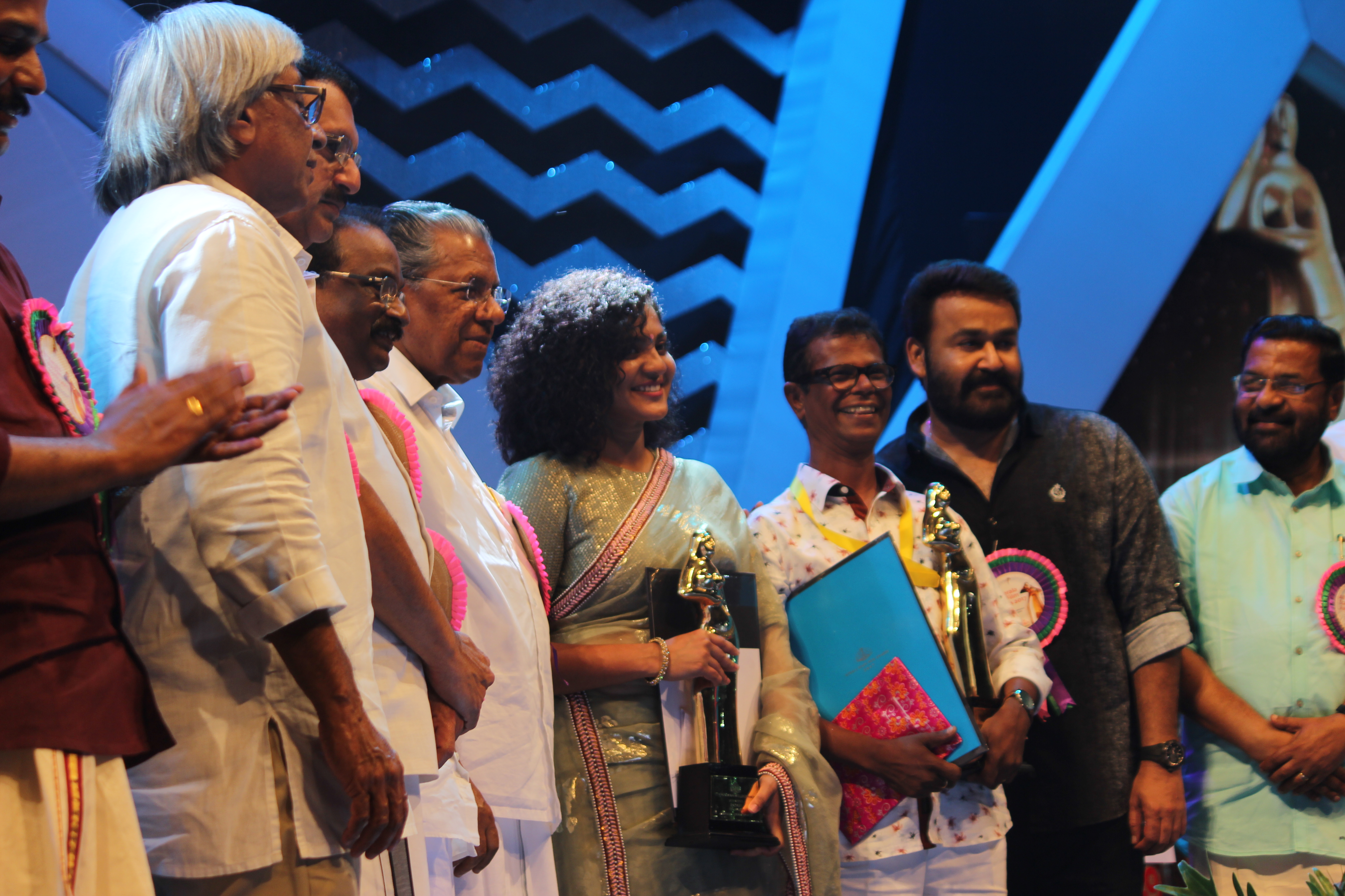 Indrans and Parvathy Receiving Best Actor and Best actress Awards for 2018 from Pinarayi Vijayan, the Chief Minister of Kerala.